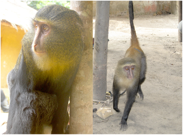 Two photos of a captive Lesula monkey (Cercopithecus lomamiensis).